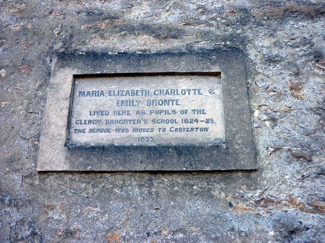 The Bronte sisters' plaque, Cowan Bridge